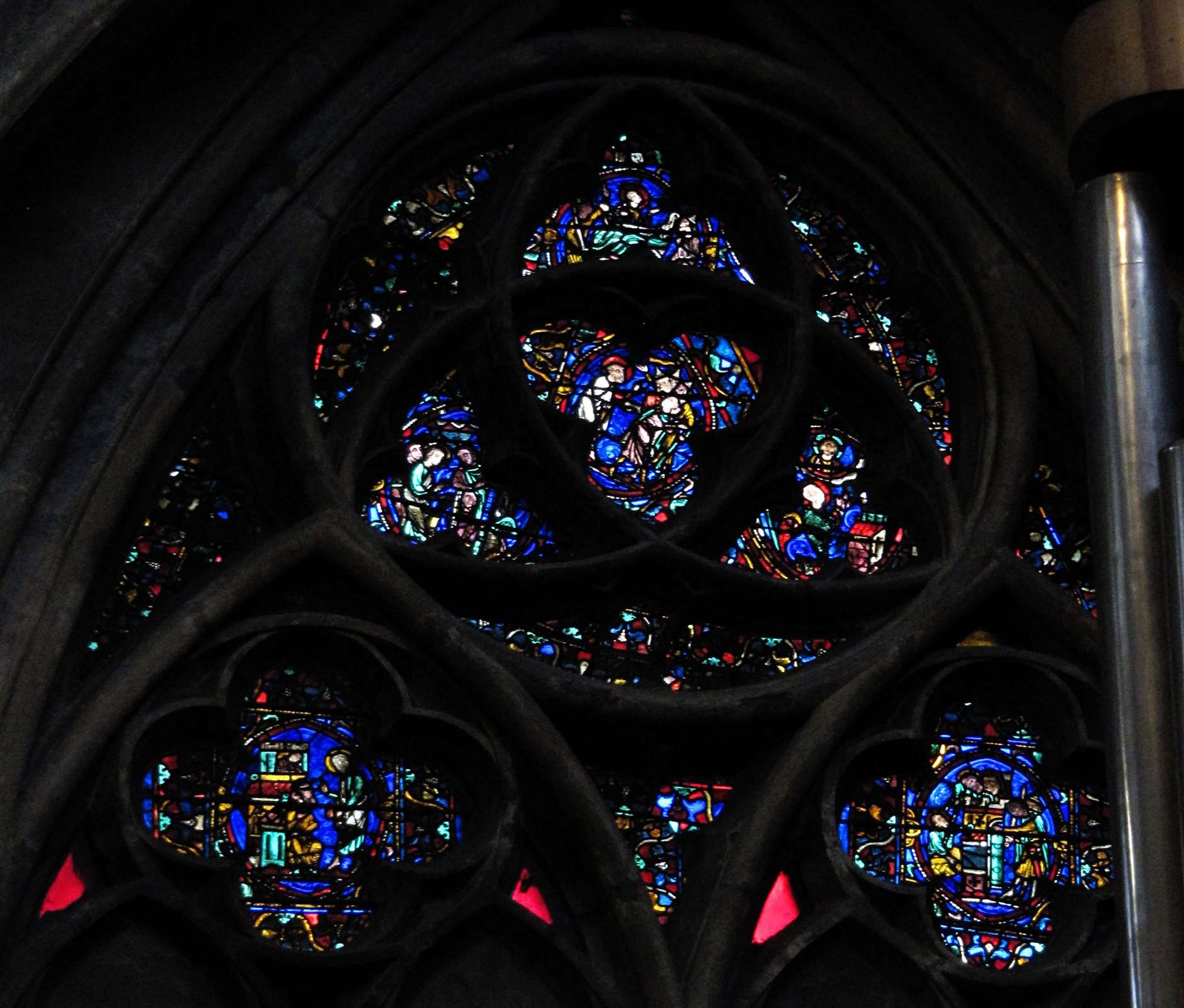 window (XIIIth century) of the cathedral of Metz